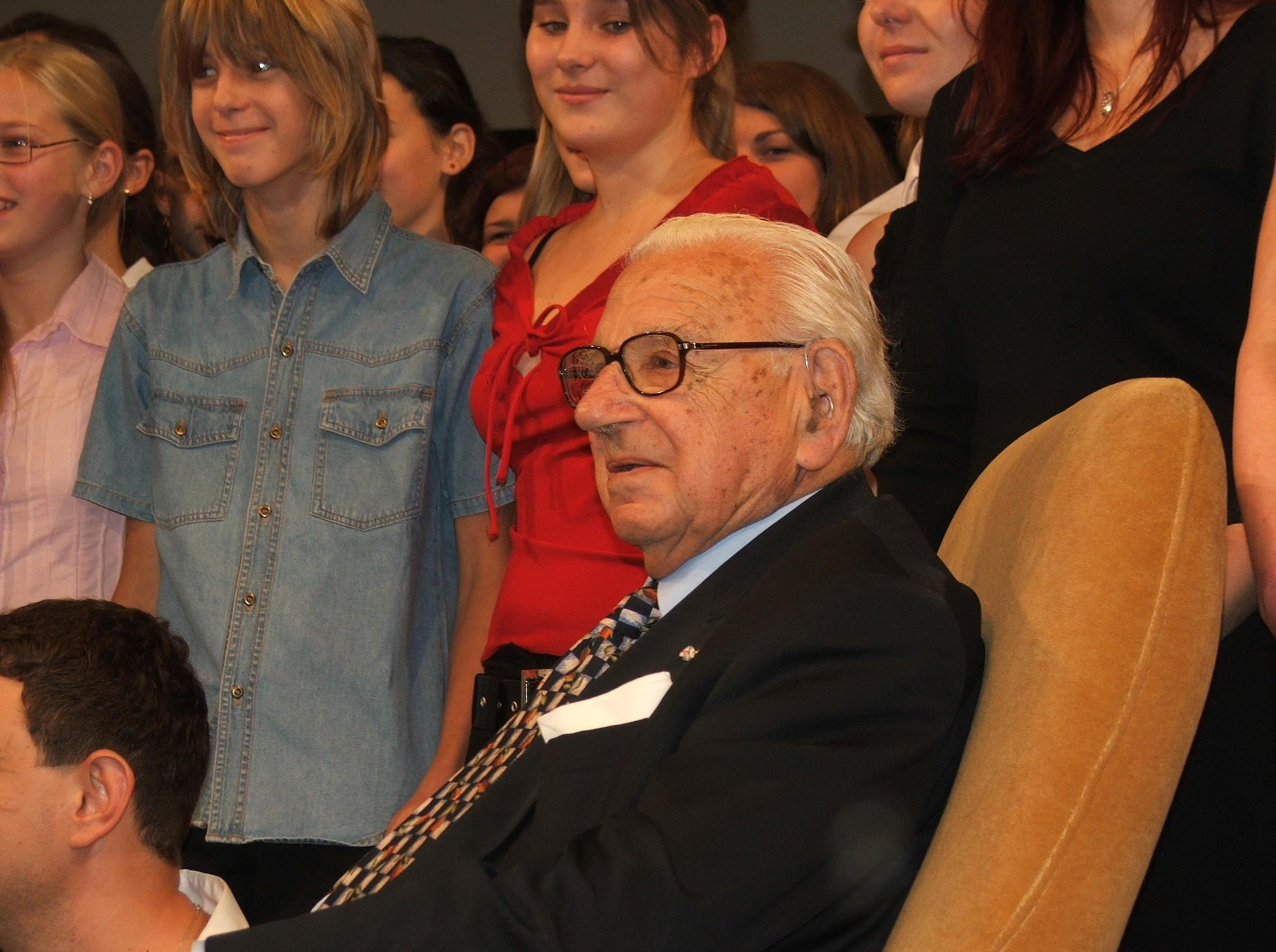 Sir Nicholas Winton British humanitarian (b. 1909) who organized the rescue of about 669 mostly Jewish Czech children visiting Prague in October 2007 - meeting with Czech students.